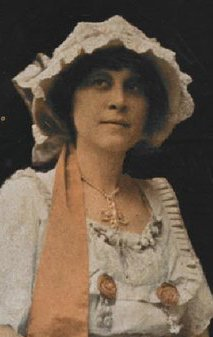 Fleta Jan Brown, a white woman, in white dress and hat with orange trim.